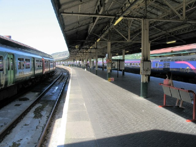 Swansea Railway Station